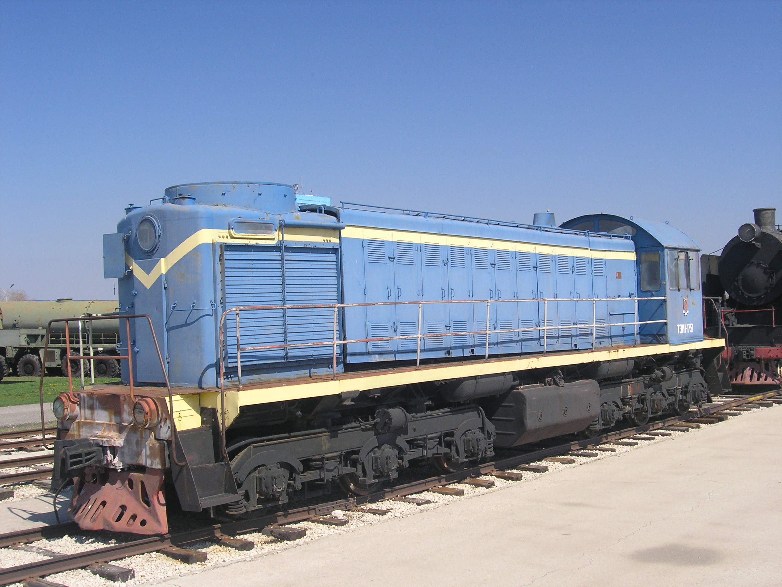 Diesel shunting locomotive ТЕМ 1-1751 in Technical museum Togliatti